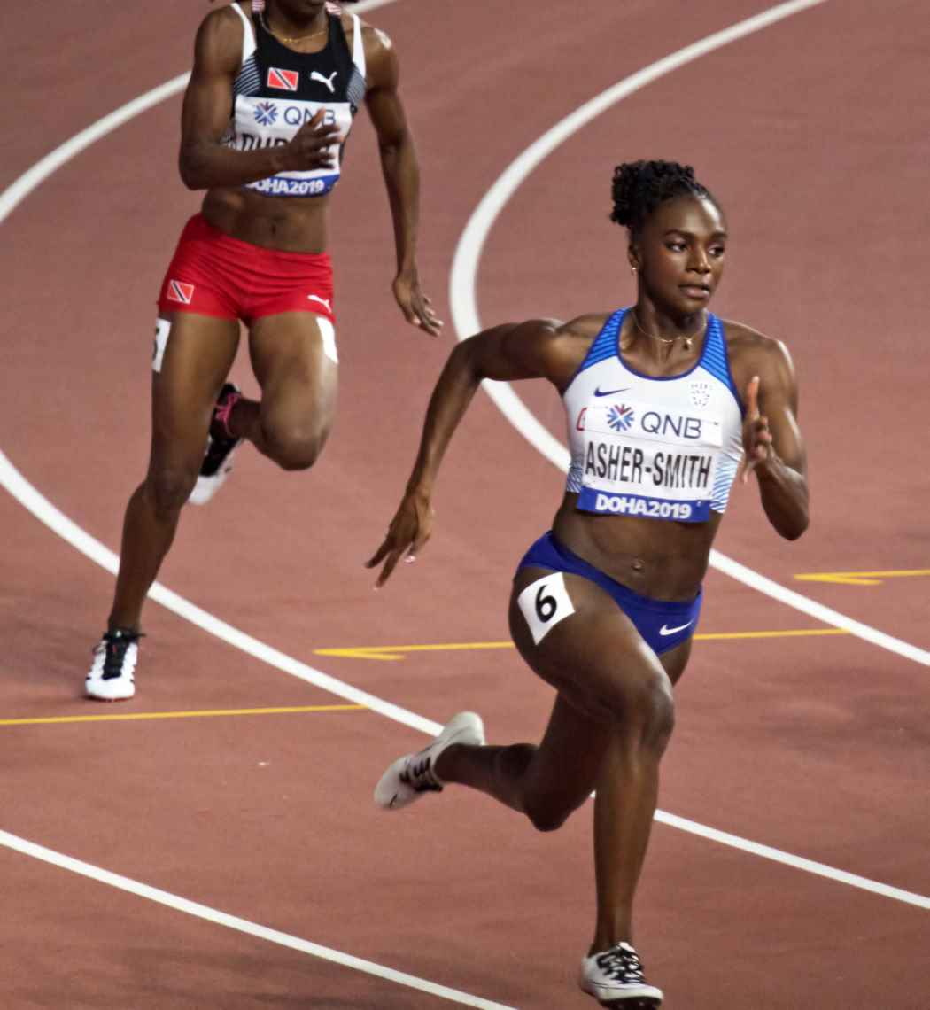 DOH50218 200m semifinal woman asher-smith